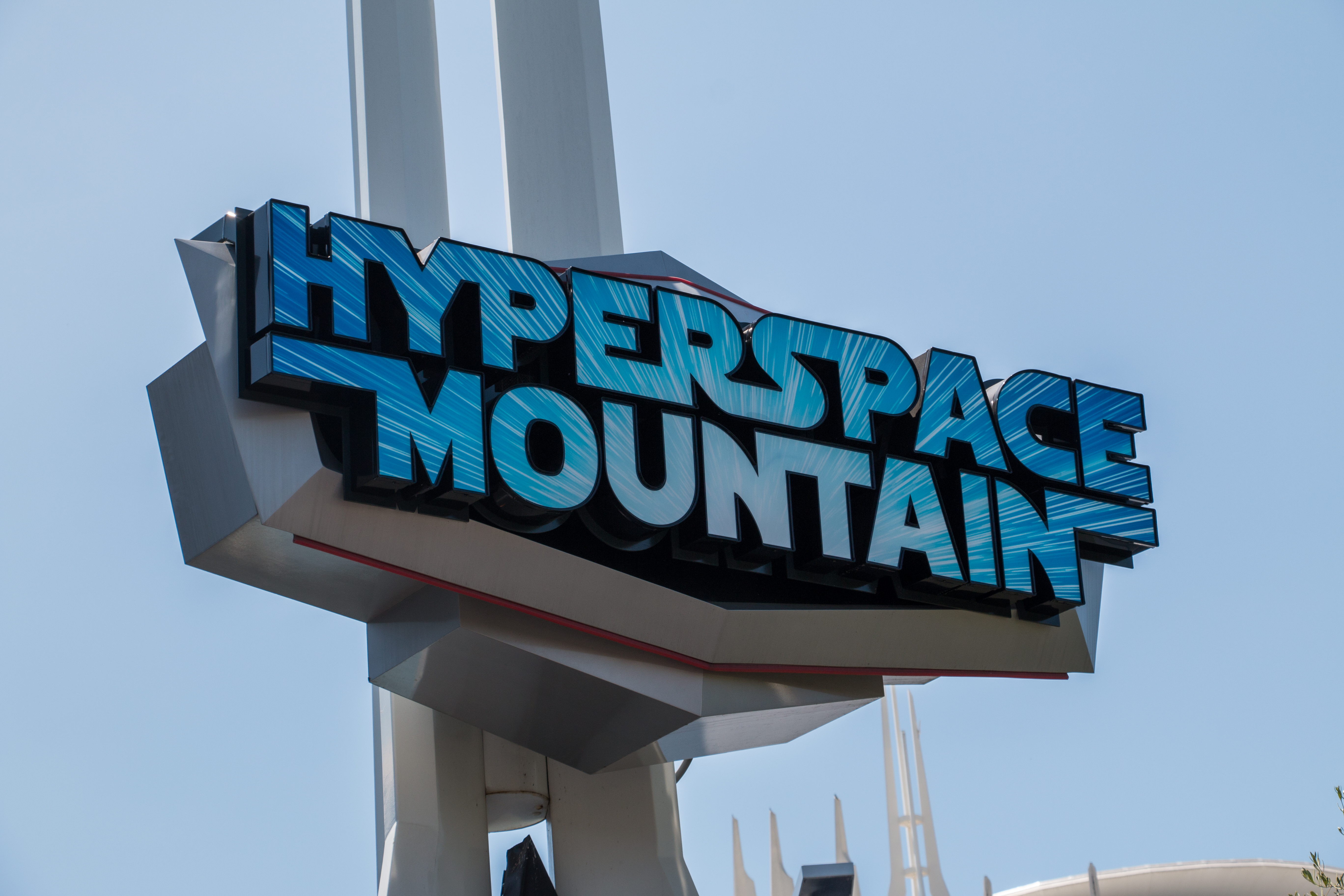 Signage for Hyperspace Mountain in Tomorrowland at Disneyland.